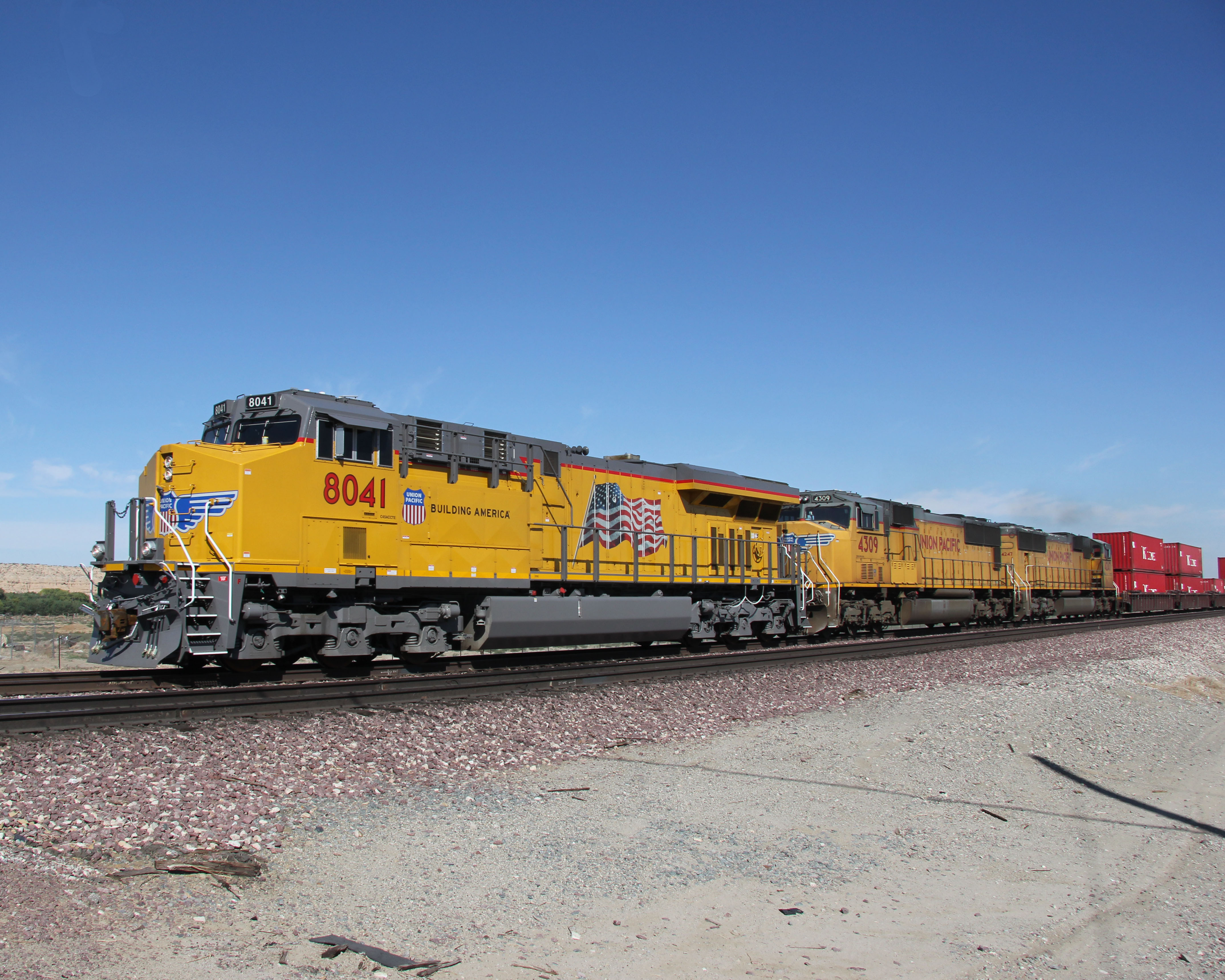 During a trip to Barstow CA in 2012, I had a half day to take some train photos. It was hot - 110 degrees.